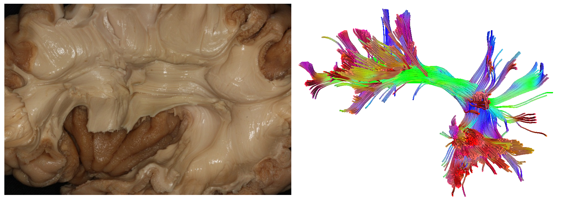 Arcuate fasciculus dissection and tractography. (A) The dissection of the arcuate fasciculus, pictured from the left hemisphere. (B) The tractography is generated by applying generalized deterministic fiber tracking to the grid sampling data with quantitative anisotropy filtering. Although the images are from different subjects, remarkably consistent structures can be observed in both images, including the branching tracks to the prefrontal cortex and temporal gyrus.